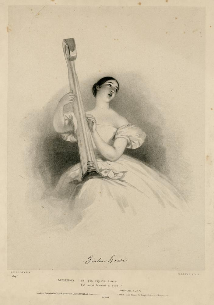 Portrait of Giulia Grisi, three-quarter-length, slightly turned to the right, seated as she plays the harp and sings, dressed in a white dress with puffed sleeves, a facsimile of his signature below, proof Lithograph